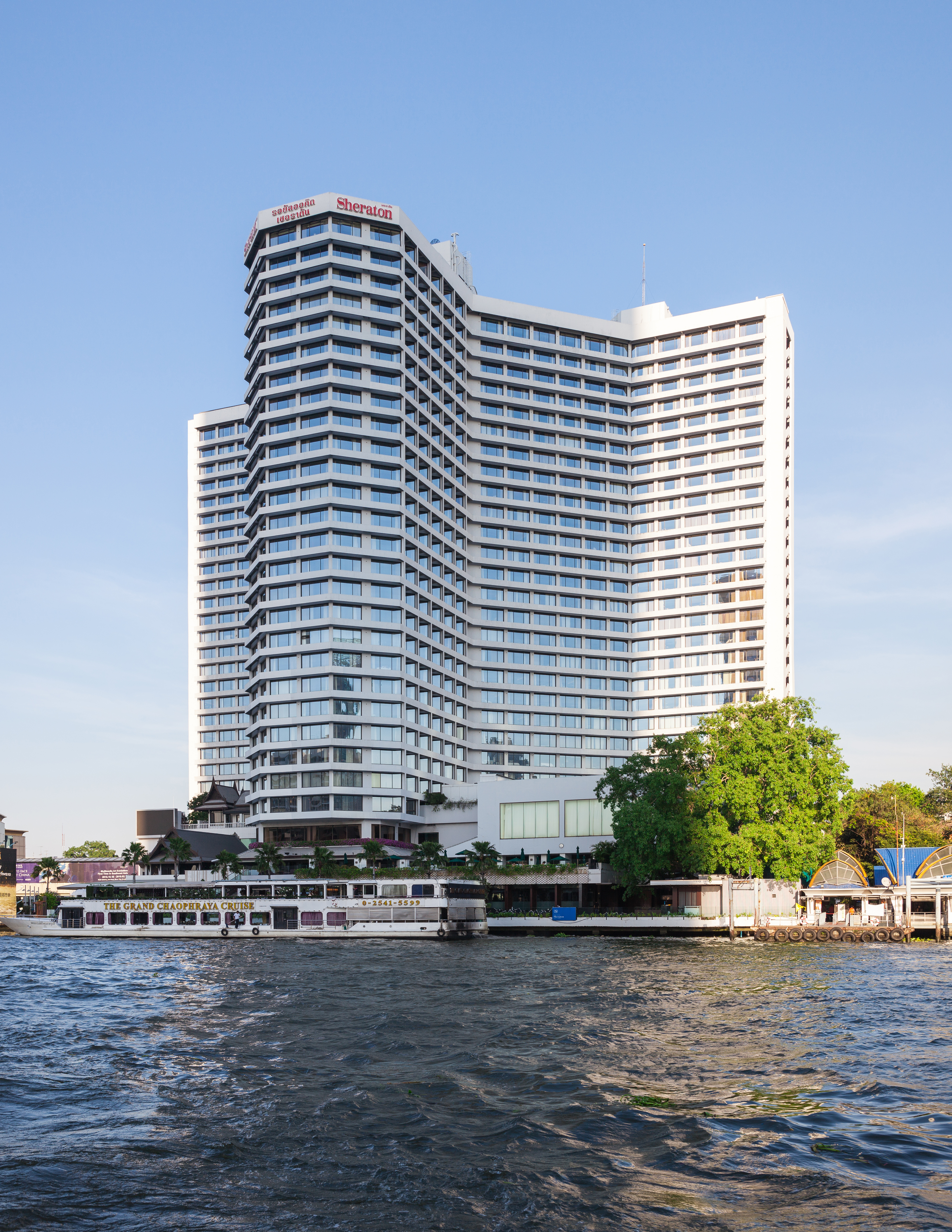 Royal Orchid Sheraton Hotel & Towers, Bangkok.